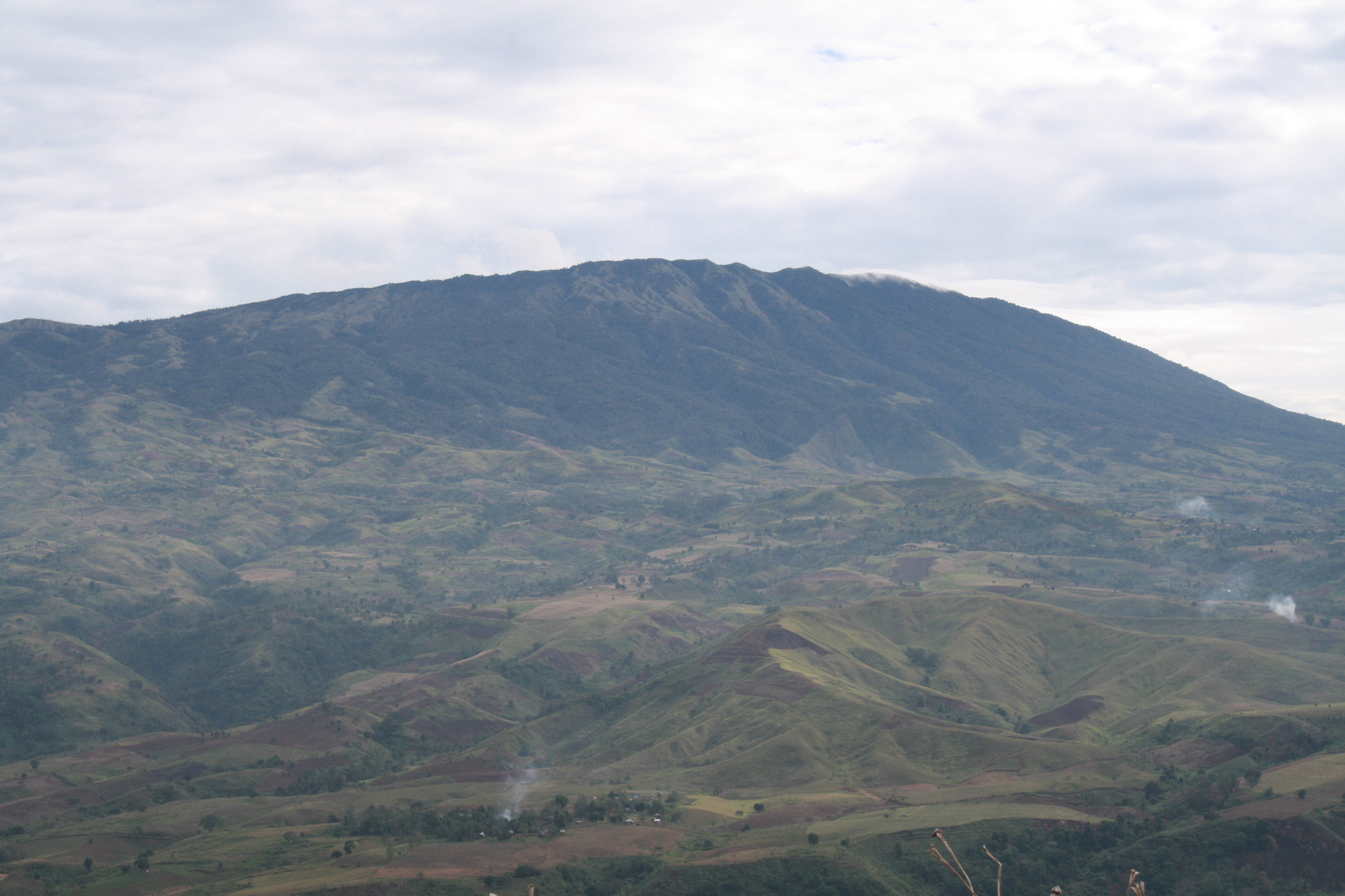 Mount Balatukan, photographed from Claveria, Misamis Oriental